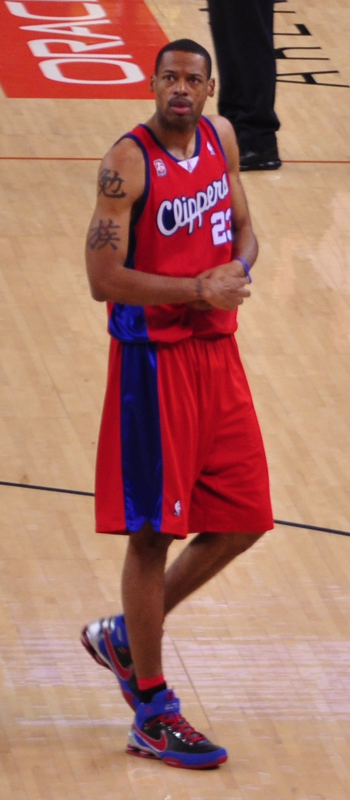 Marcus Camby of the Los Angeles Clippers